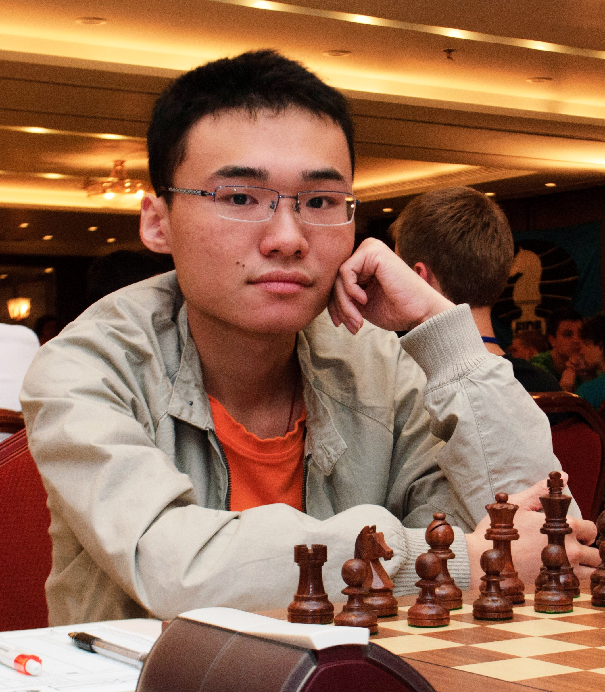 GM Yu Yangyi, WChJ Athens 2012